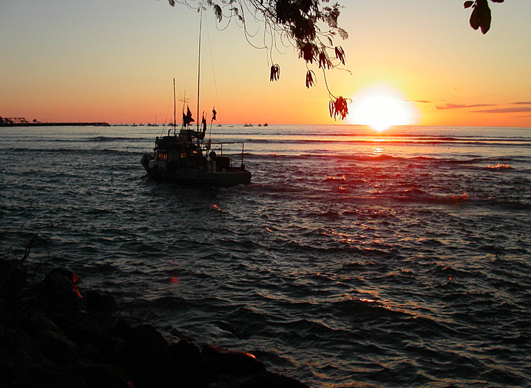 A fishing boat heads out to sea at dusk off the western coast of Costa Rica, near Quepos. Photo by Gerry Manacsa, November 2002.